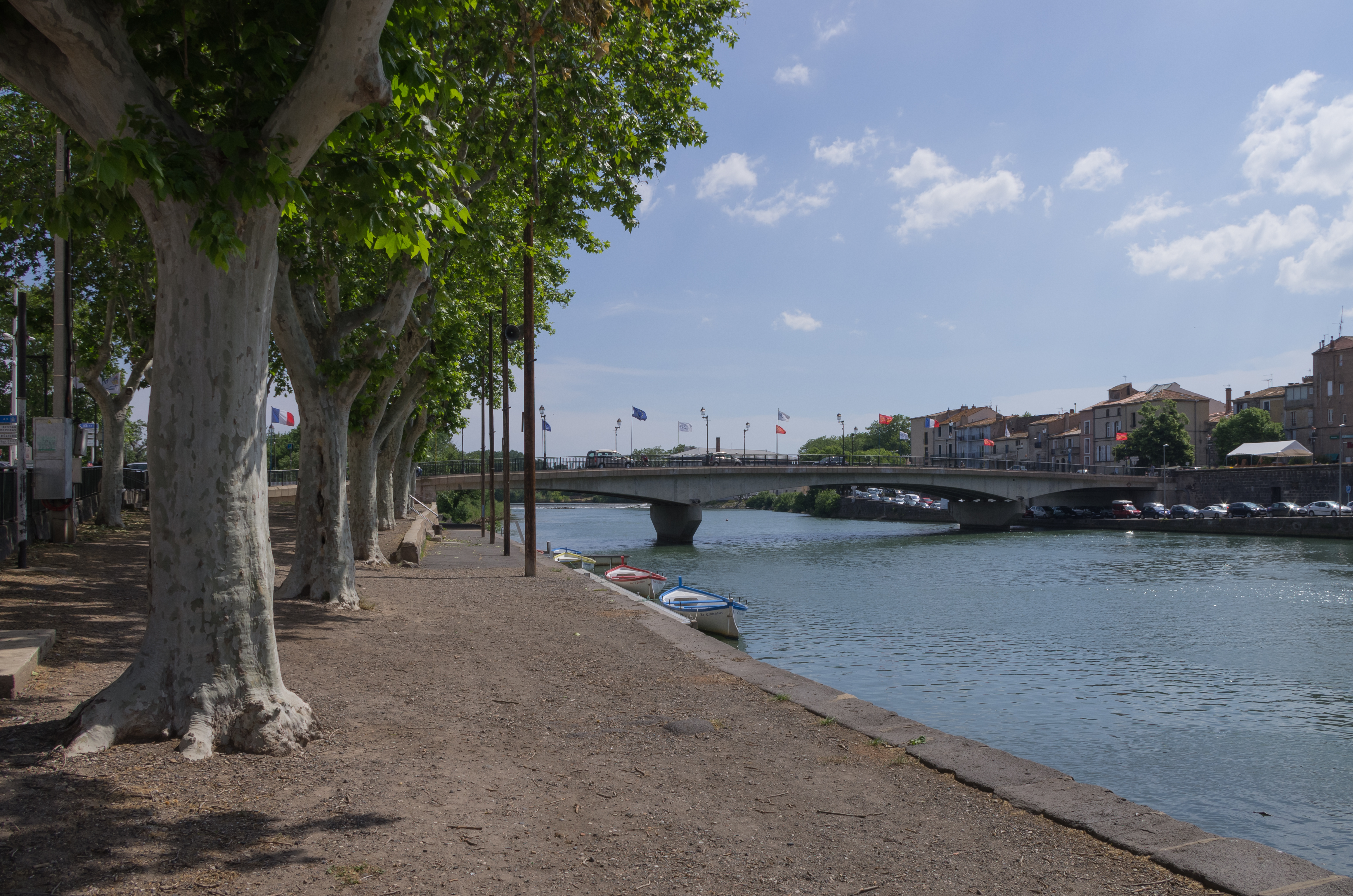 Maréchaux Bridge (RD 912) over the Hérault River in downtown Agde, Hérault, France.